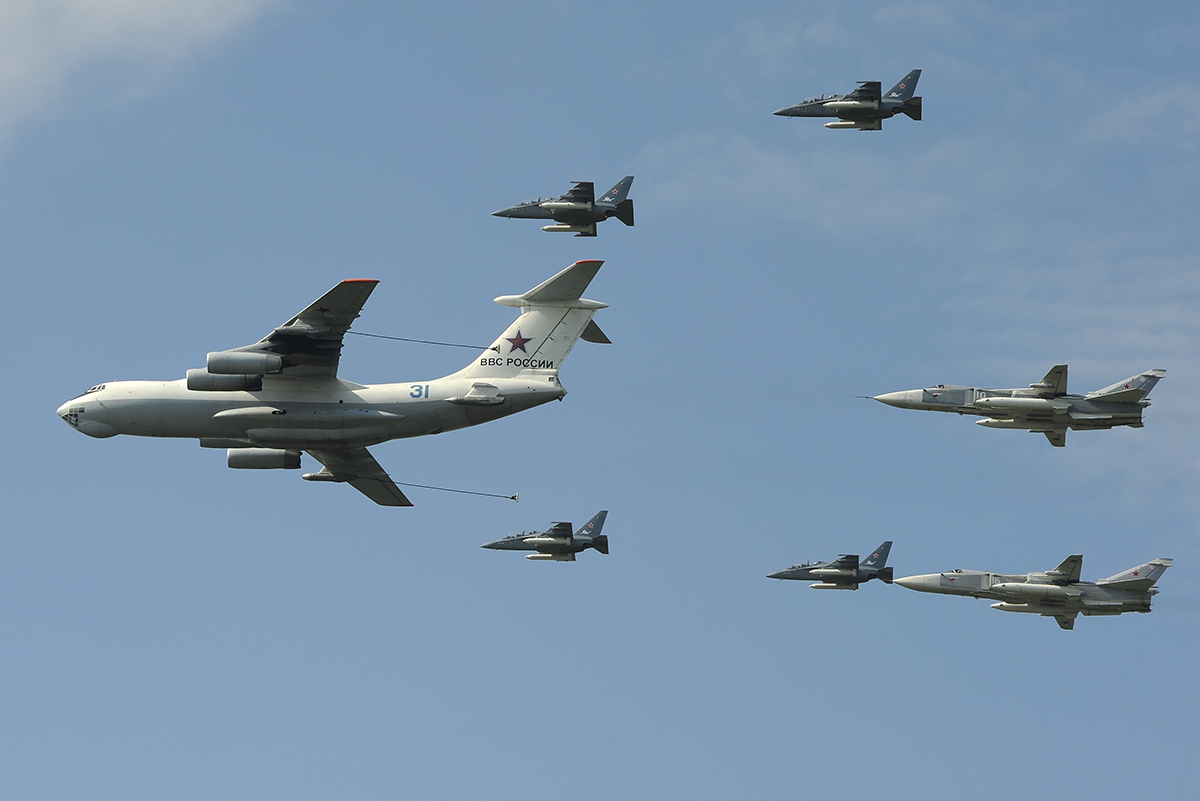 "Refueling in air"